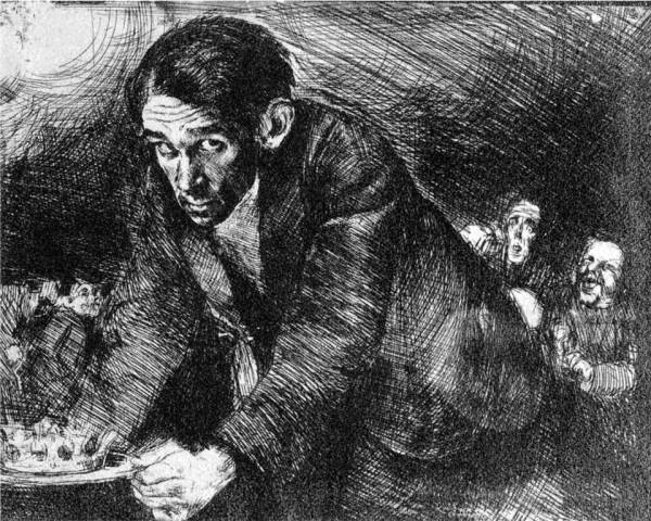 =Self portrait in cliché-verre